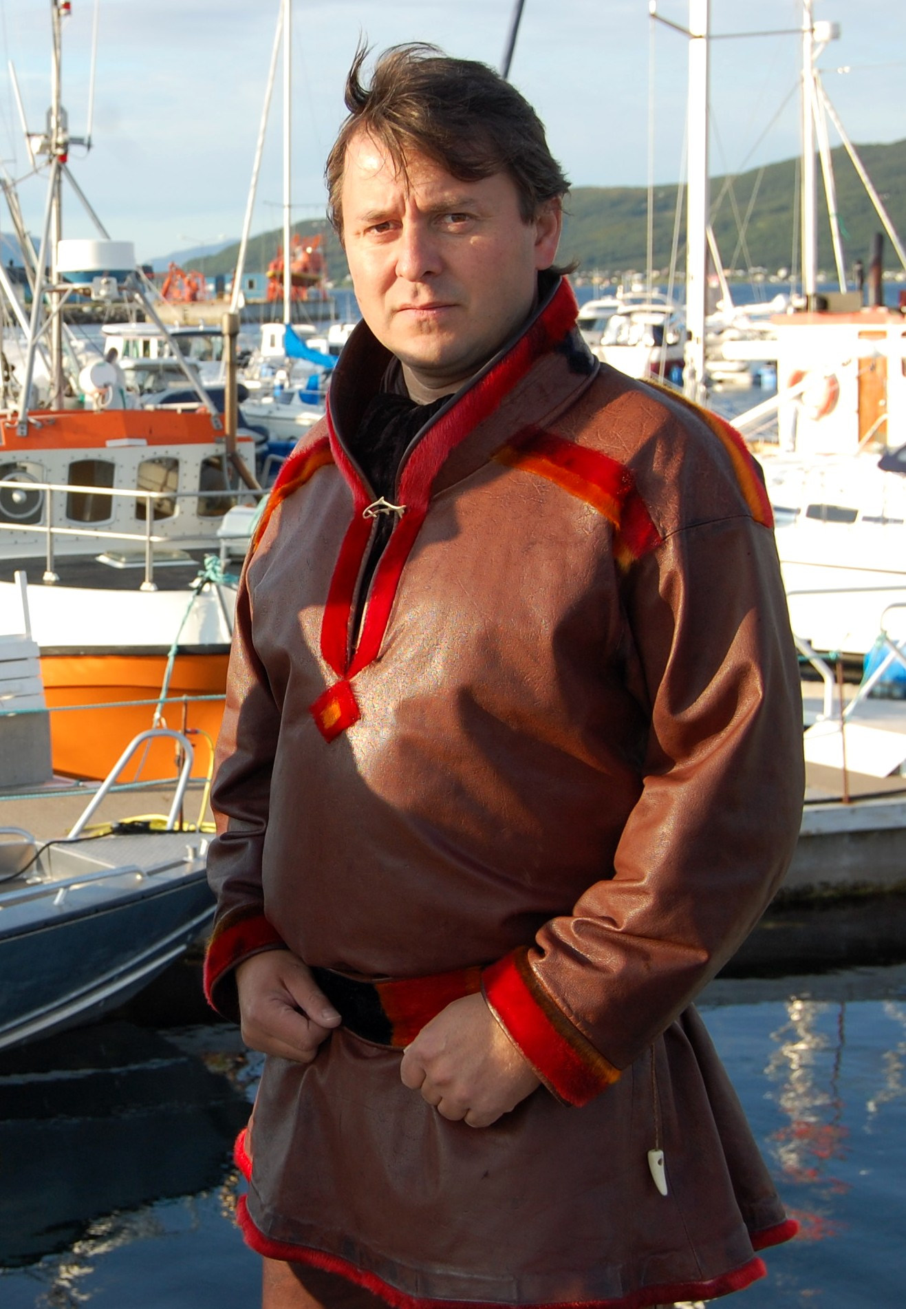 Geir Tommy Pedersen, Sami politician from Norwat, at the harbour.